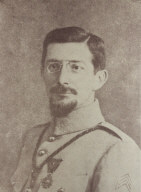 Picture of Rabbi Henri Levy in uniform